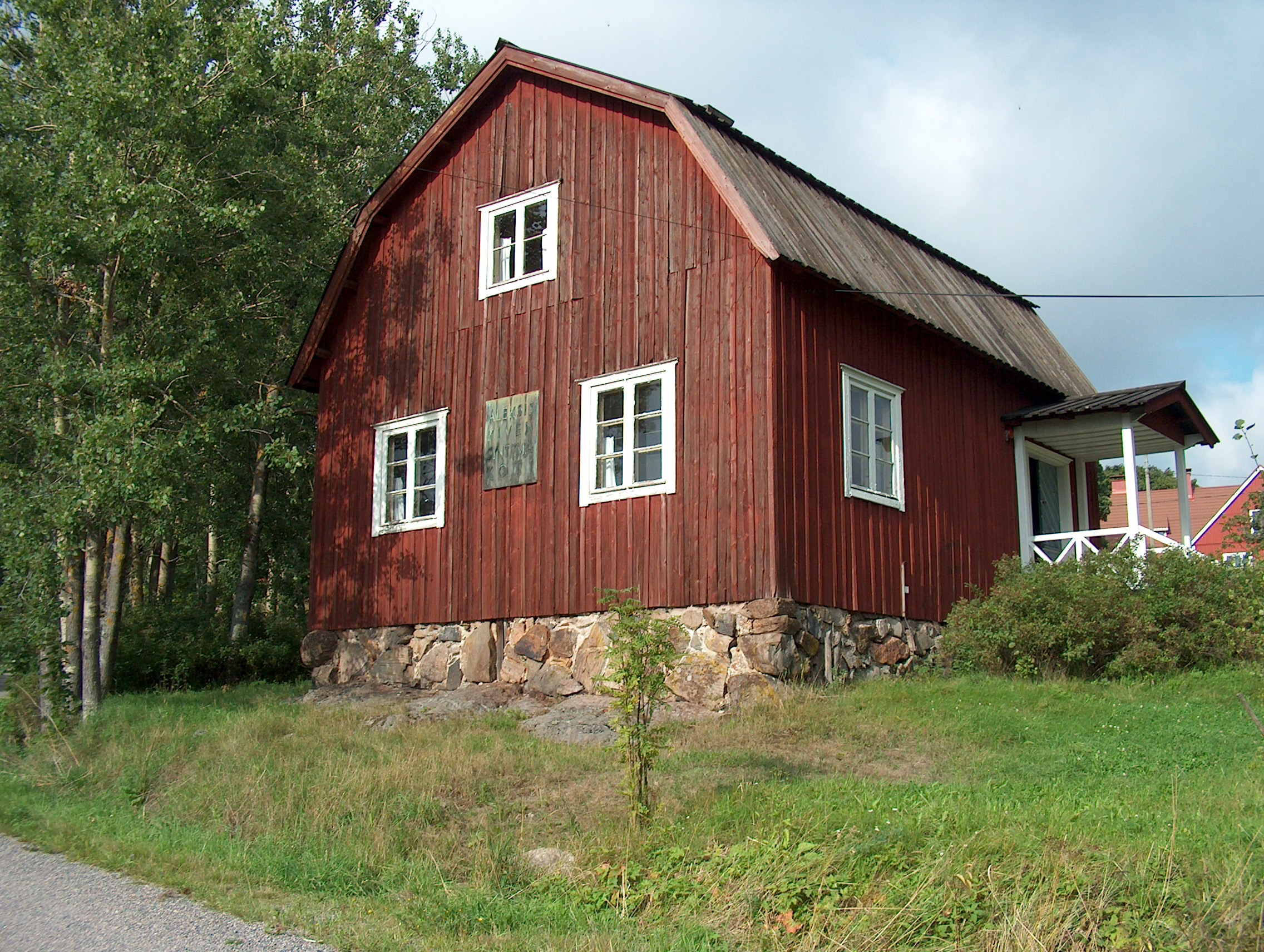 The house where the Finnish National Writer Aleksis Kivi was born in 1834